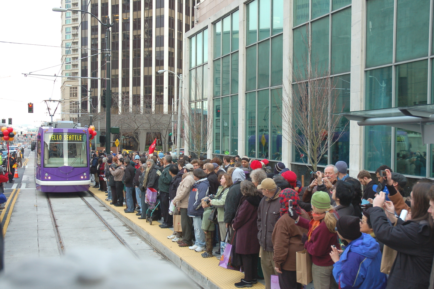 The Inaugural Day crowd at the Pacific Place Station awaits the arrival of the second South Lake Union streetcar on 12 December 2007.